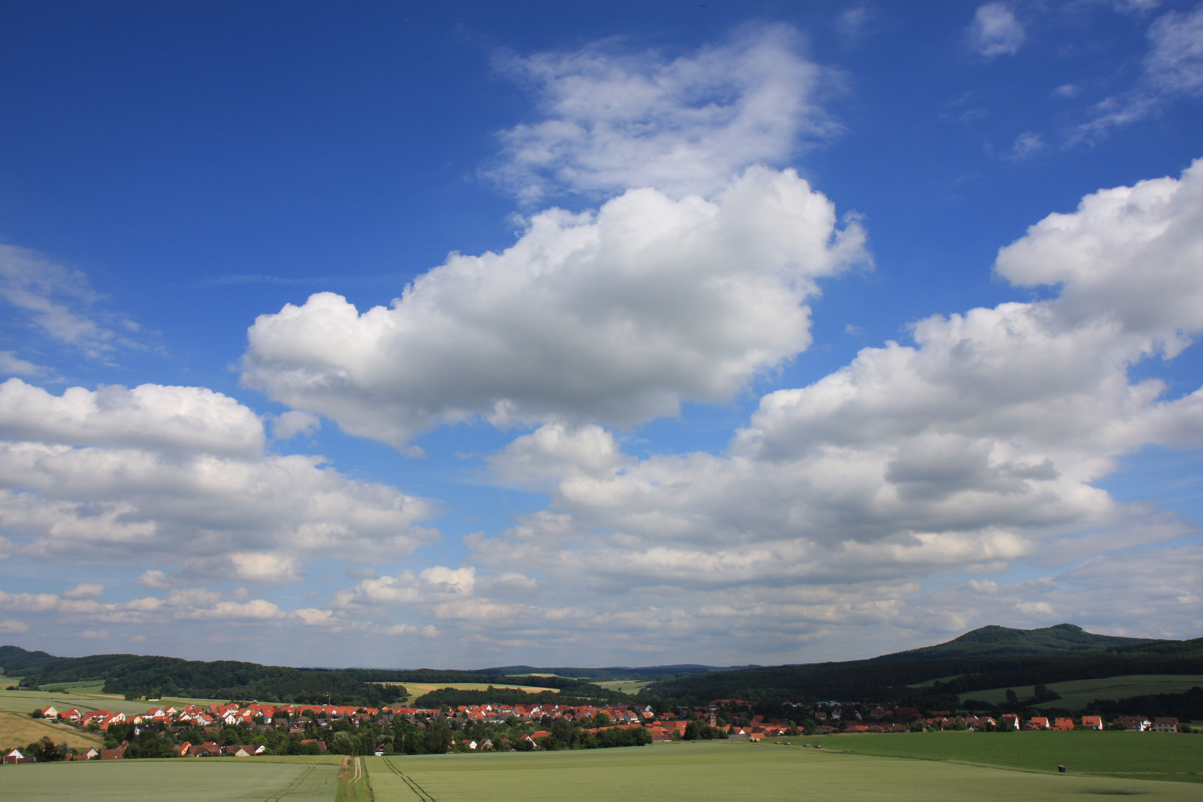 Klein Lengden, Gleichen, Germany